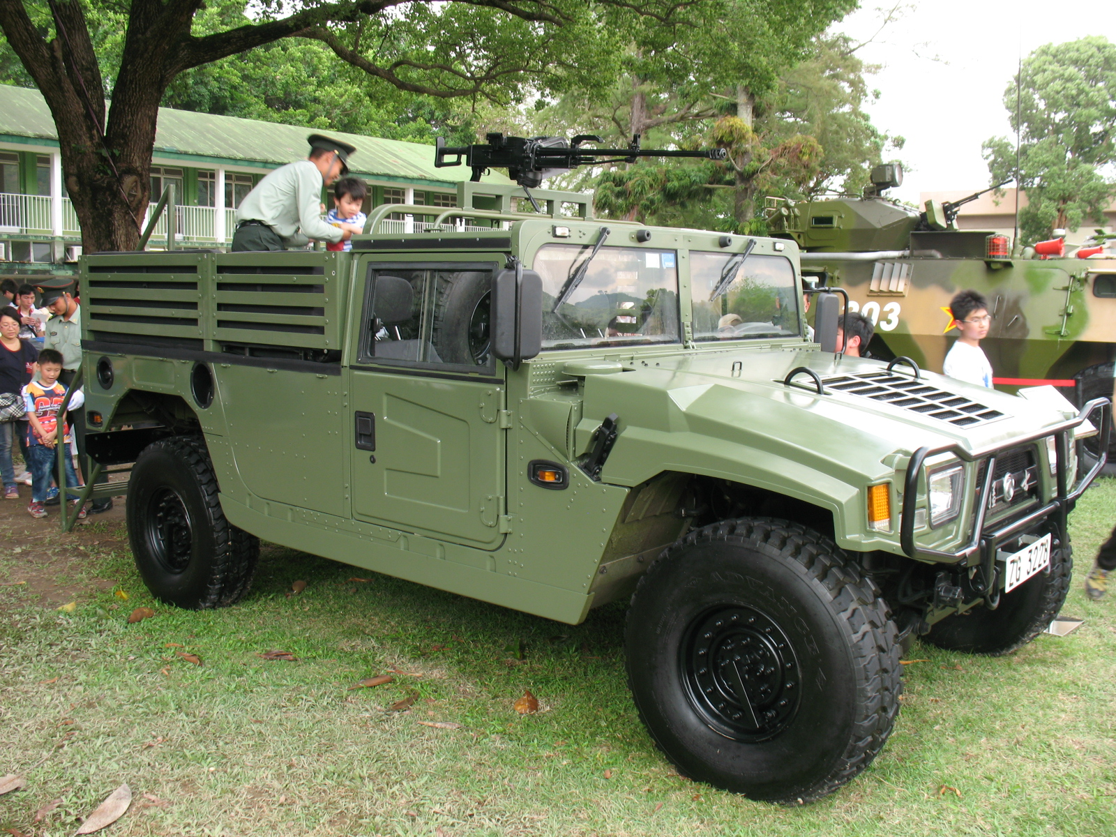 Dong Feng Mengshi EQ2050HMMWV for PLA Hong Kong Garrisons.